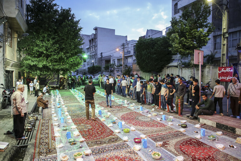 Public Iftar is a popular meal between Iranian. Iftar between Iranian family is popular and festive more than usual. Usually, people eating Iftar together in Iran.